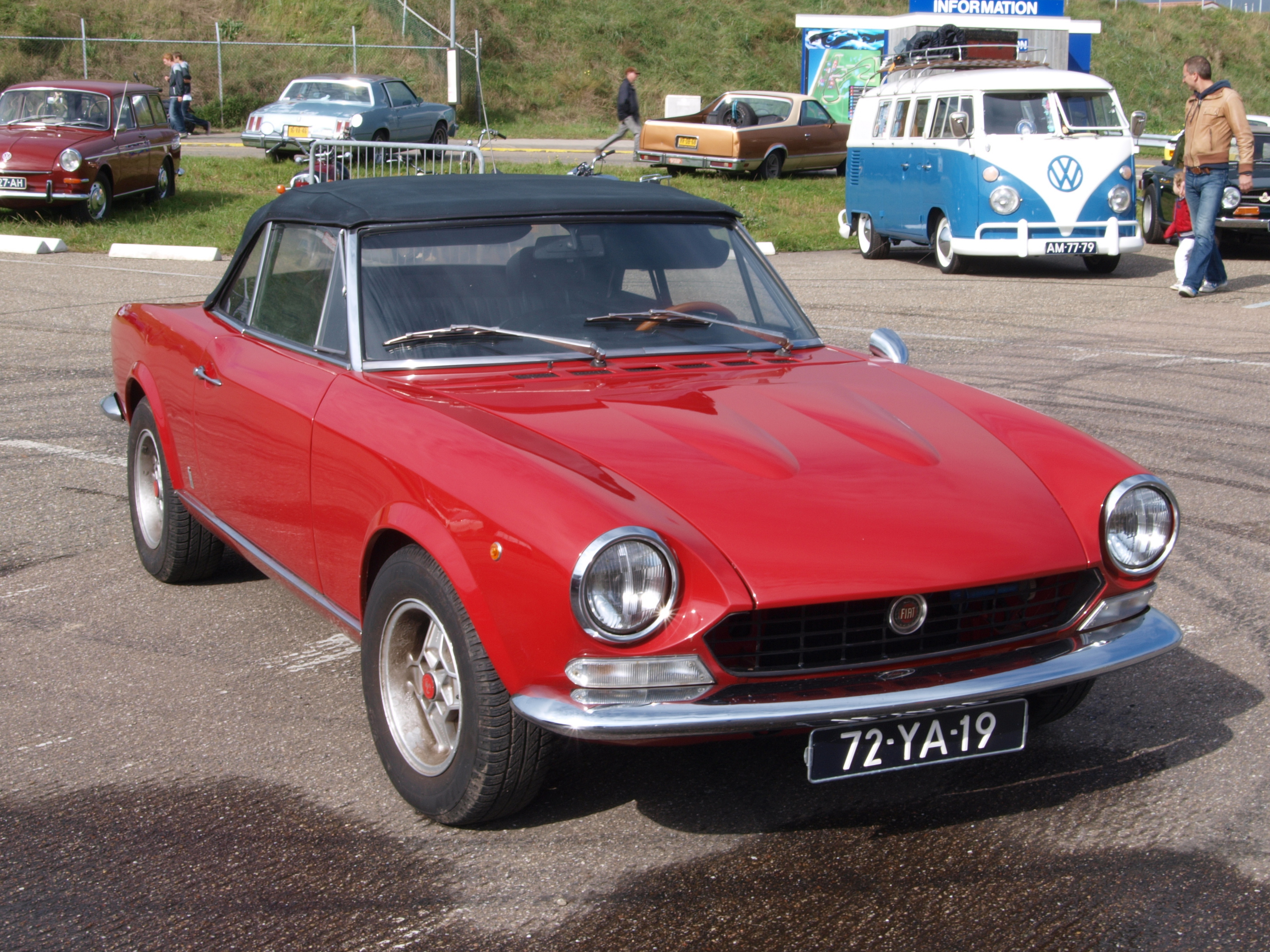 Photographed at the Nationaal Oldtimer Festival Zandvoort 2010, The Netherlands.